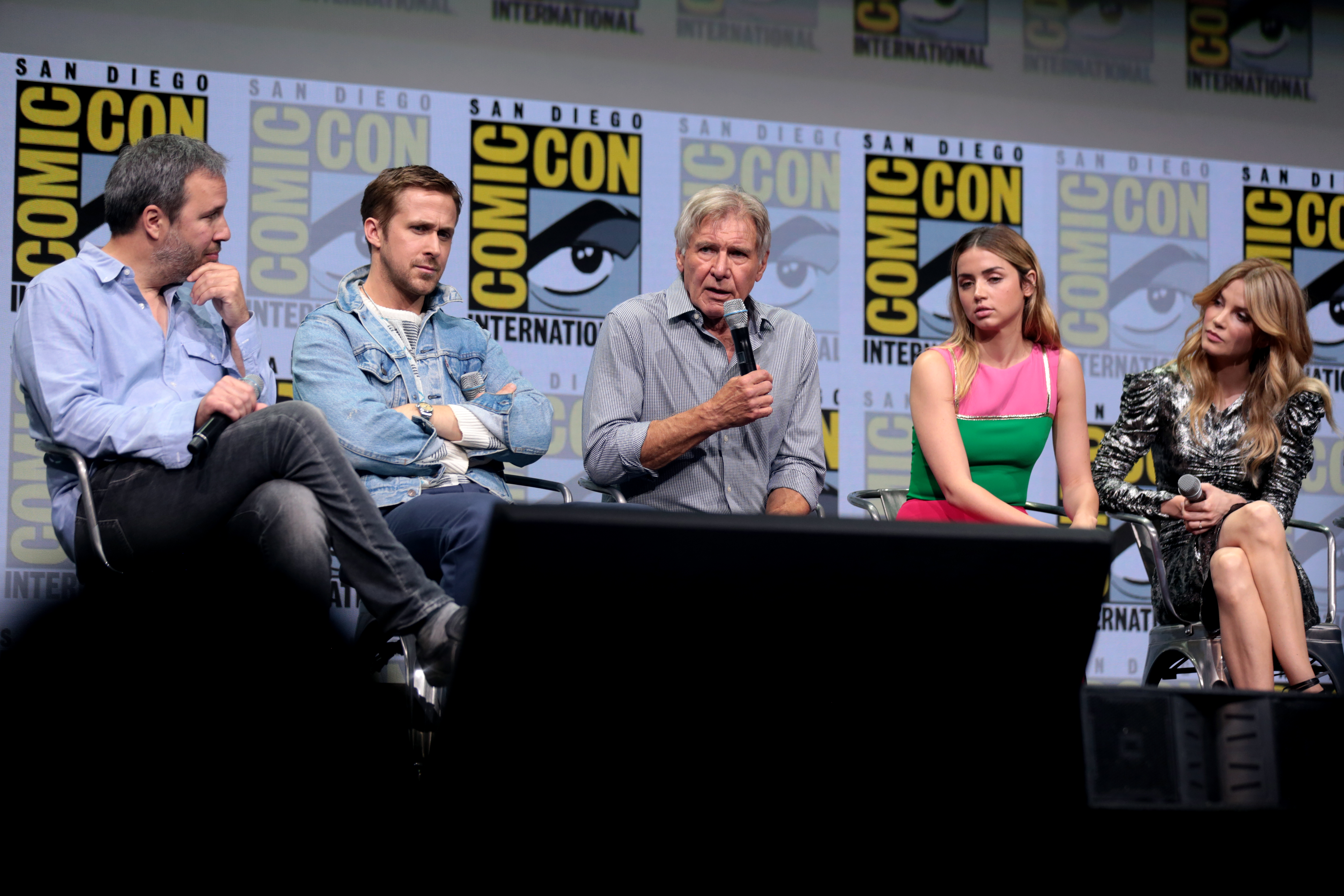 Denis Villeneuve, Ryan Gosling, Harrison Ford, Ana de Armas and Sylvia Hoeks speaking at the 2017 San Diego Comic Con International, for "Blade Runner 2049", at the San Diego Convention Center in San Diego, California.